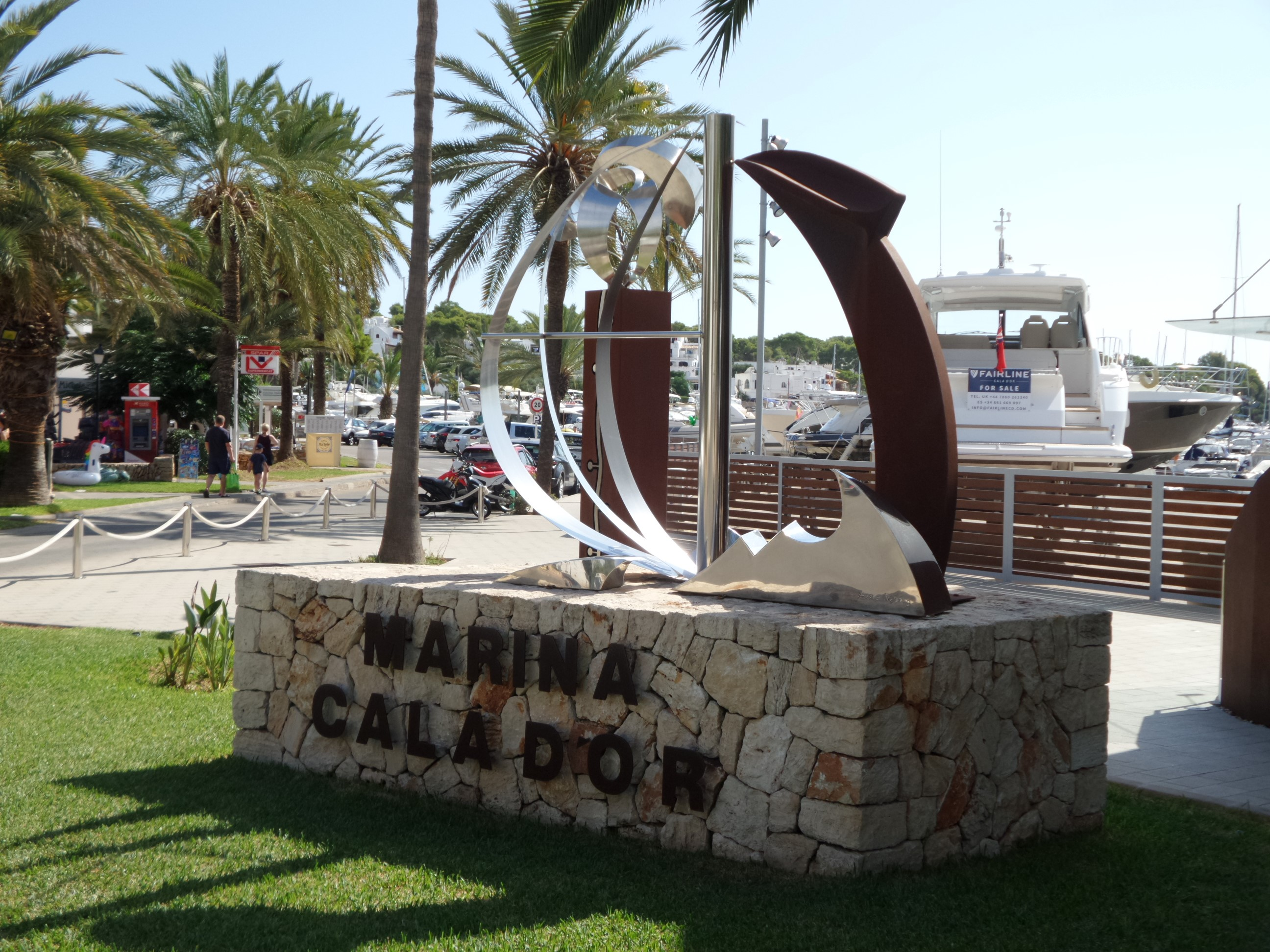 Marina of Cala d'Or